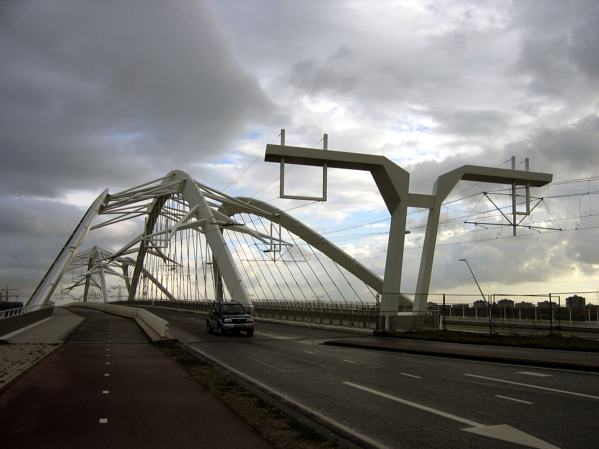 IJburg, Amsterdam, Enneus Heerma bridge.